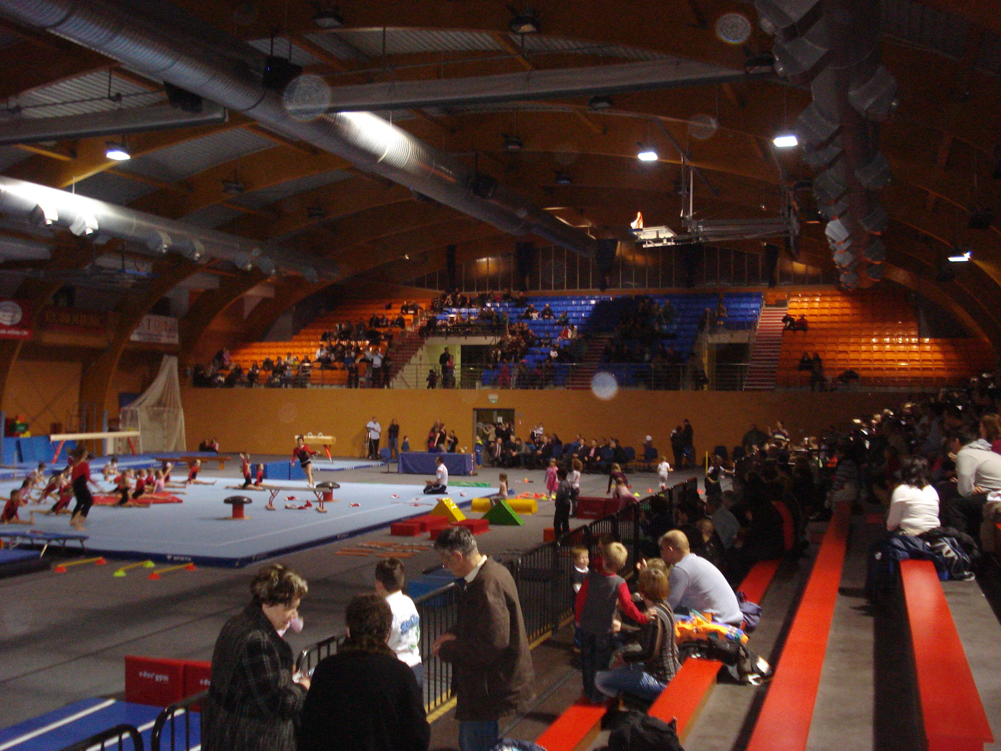 Aton - Croatian National Gymnastics Training Centre - Nedelišće, Medjimurje County, Croatia - sports hall as seen from the inside (including grandstands)